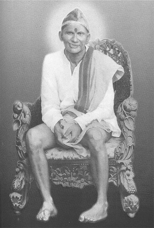 Swami Shri Krishna Saraswati Maharaj, Kolhapur